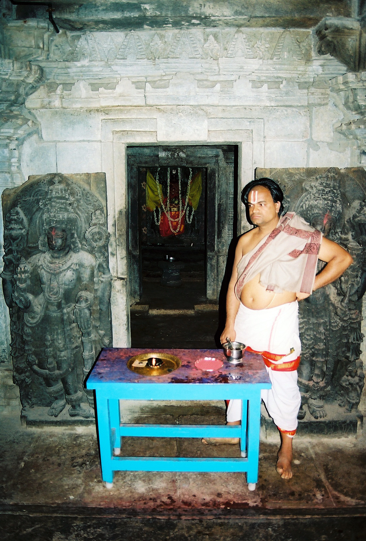 A priest inside the temple, with the sanctum in the background. Jaya-Vijaya guarding the door to the sanctum with the Vishnu image in it